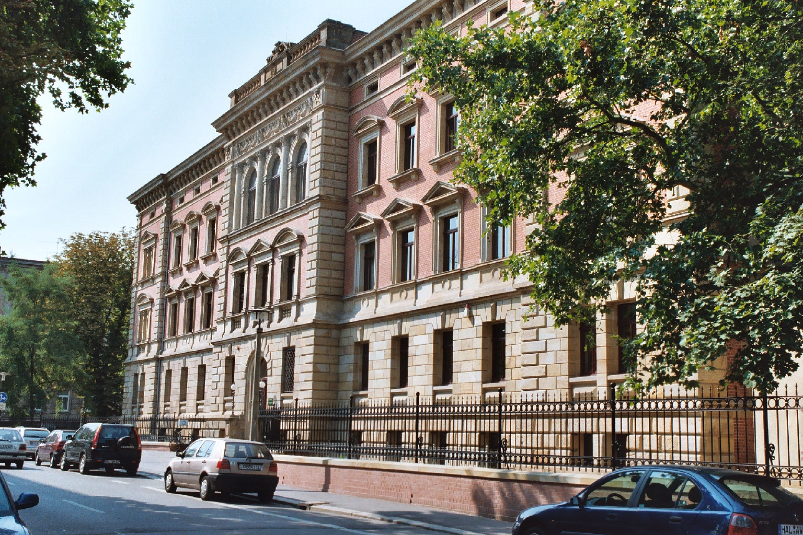 Halle (Saale), the library of the university, house 2